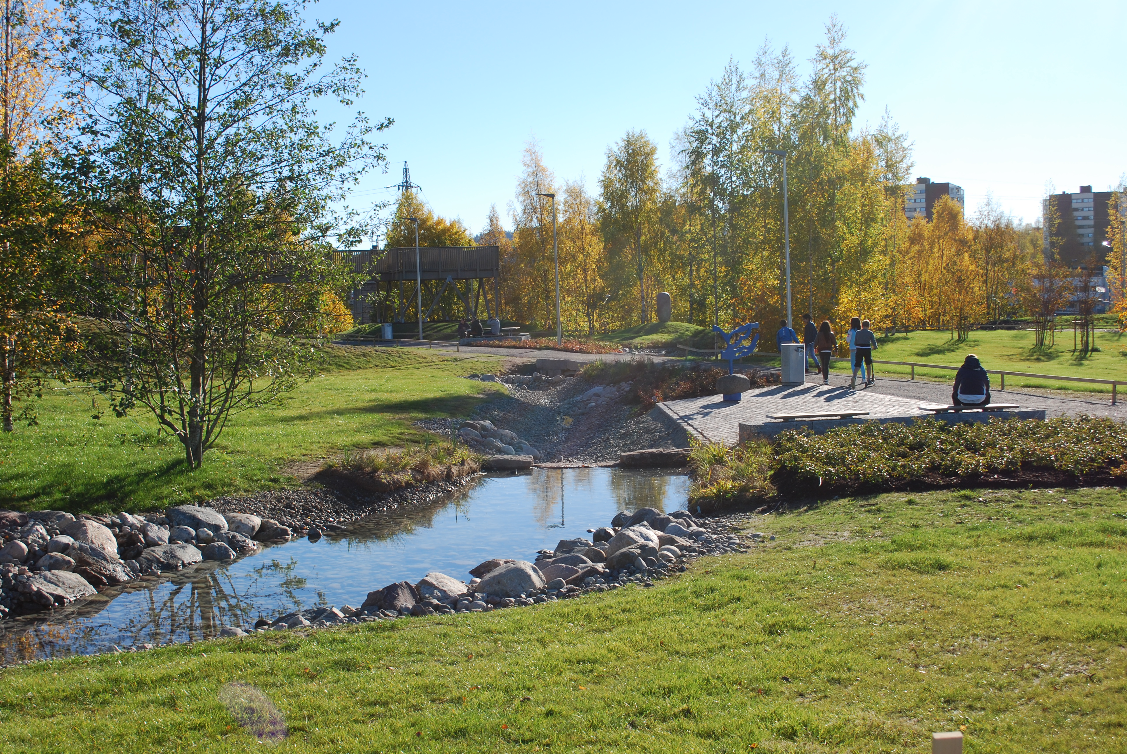 Rommensletta Sculpture Park, Smedstua, Oslo, with water